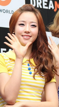 Cyworld Dream Music Festival 싸이월드 드림 뮤직 페스티벌 풍경_31